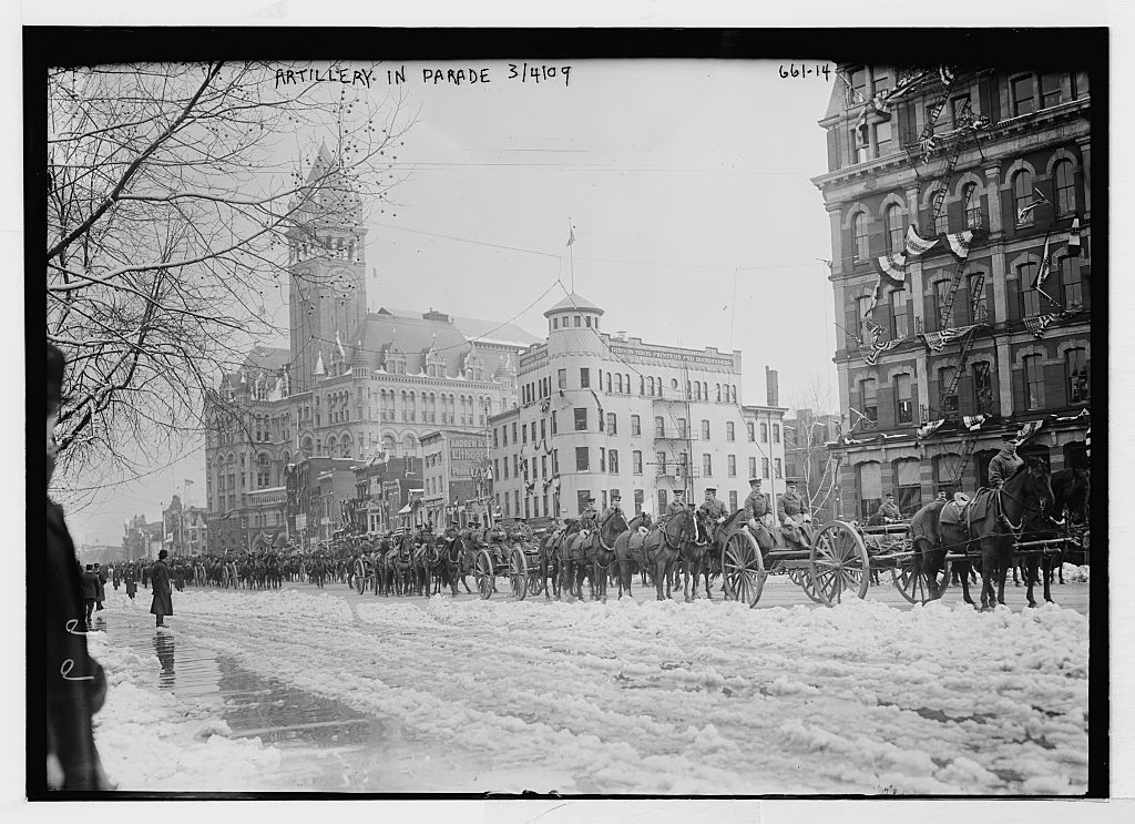 Inaugural parade for Taft, artillery, on Penn. Ave., Photo shows Old Post Office, 1100 Pennsylvania Avenue, N.W., at left. Gibson Bros. Printers and Bookbinders is turreted building at center, at 13th Street.Washington, D.C.